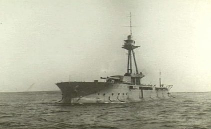 British monitor HMS Abercrombie. AWM caption : "At Sea, Turkey. July 1915. The latest class, at that time, of monitors, which, with other warships, began to reappear off Anzac, Gallipoli Peninsula. These vessels were specially built with blister sides to protect the main part of the structure against the shock and destructive effects of torpedo explosion. They were practically floating platforms for two large American guns with a 14.5 calibre. This vessel is the HMS Abercrombie."